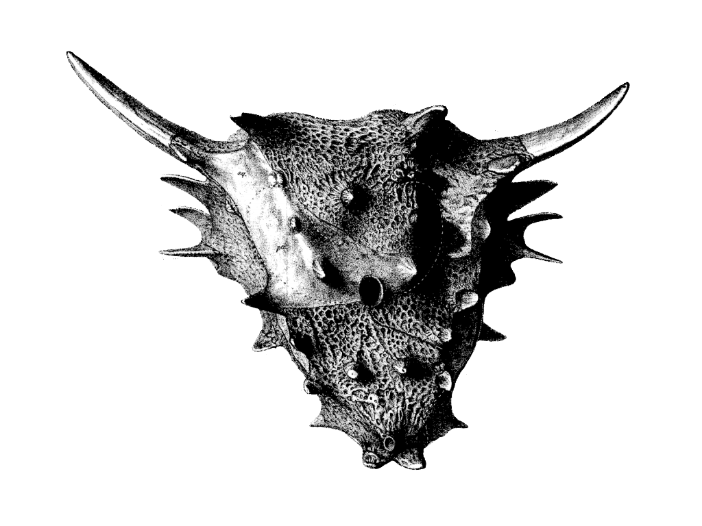 Skull of Elginia mirabilis, a pareiasaur (parareptile) from the Late Permian of Scotland (Elgin sandstones). Original description: PLATE 38. Elginia mirabilis. [...] Skull seen directly from above. The portion represented without ornament is wanting in the original, and has been restored from the opposite side.